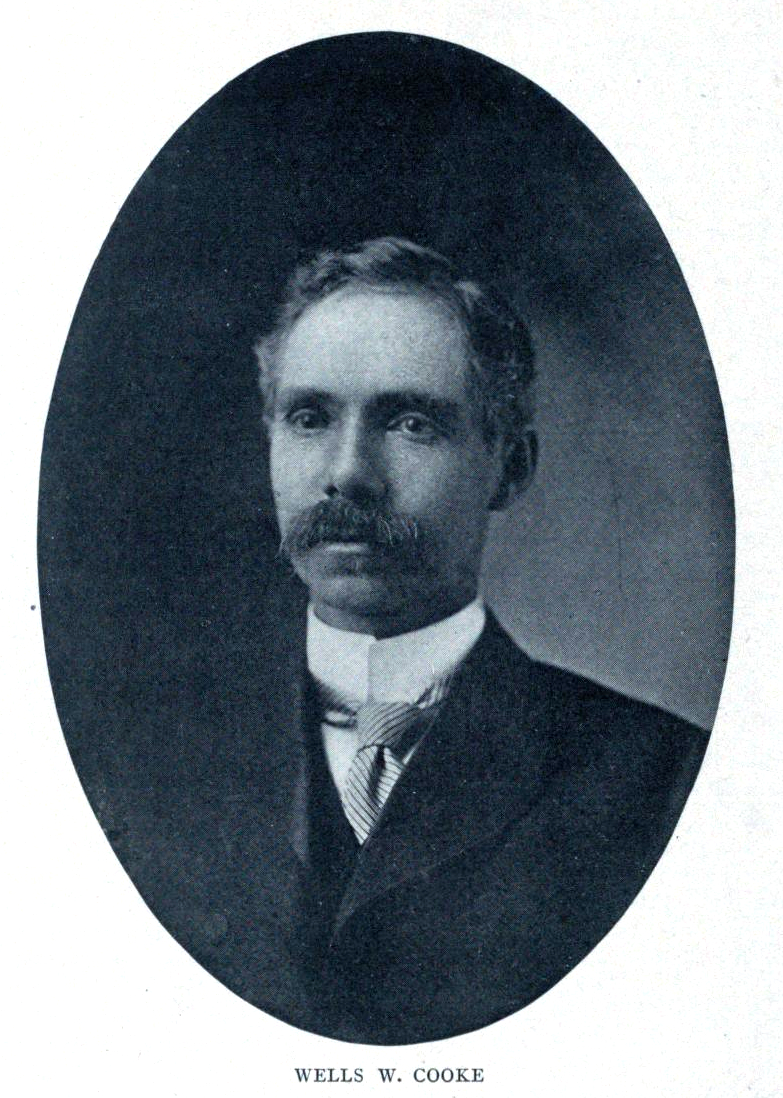 Wells Cooke, First coordinator of the North American Bird Phenology Program